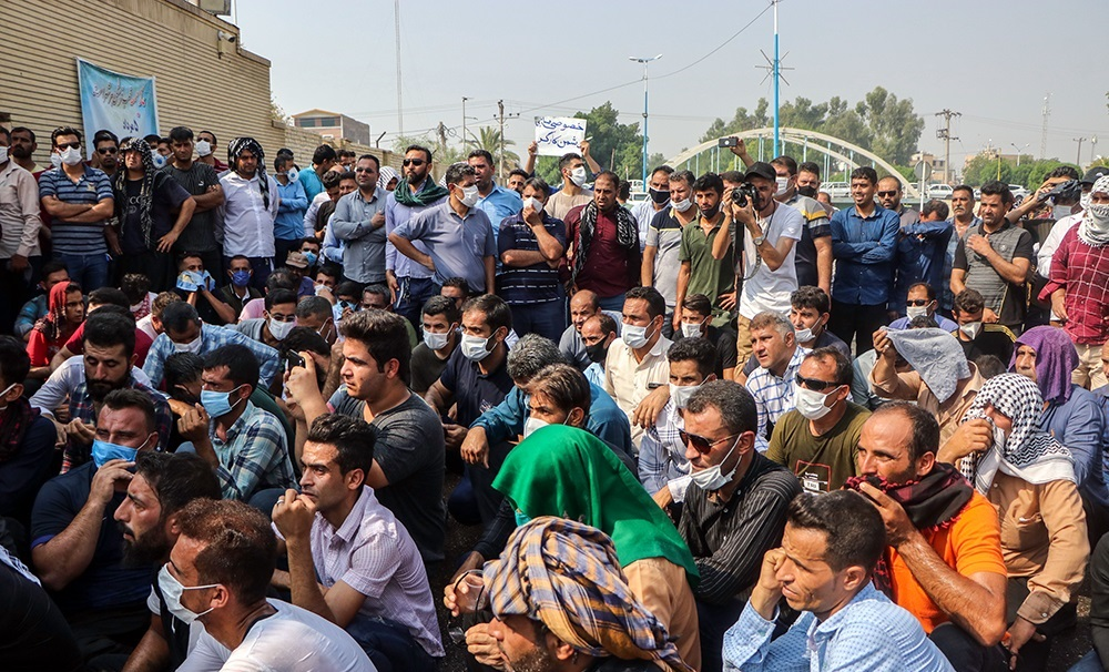 Hafttapeh strikes and protests, Shush, Iran